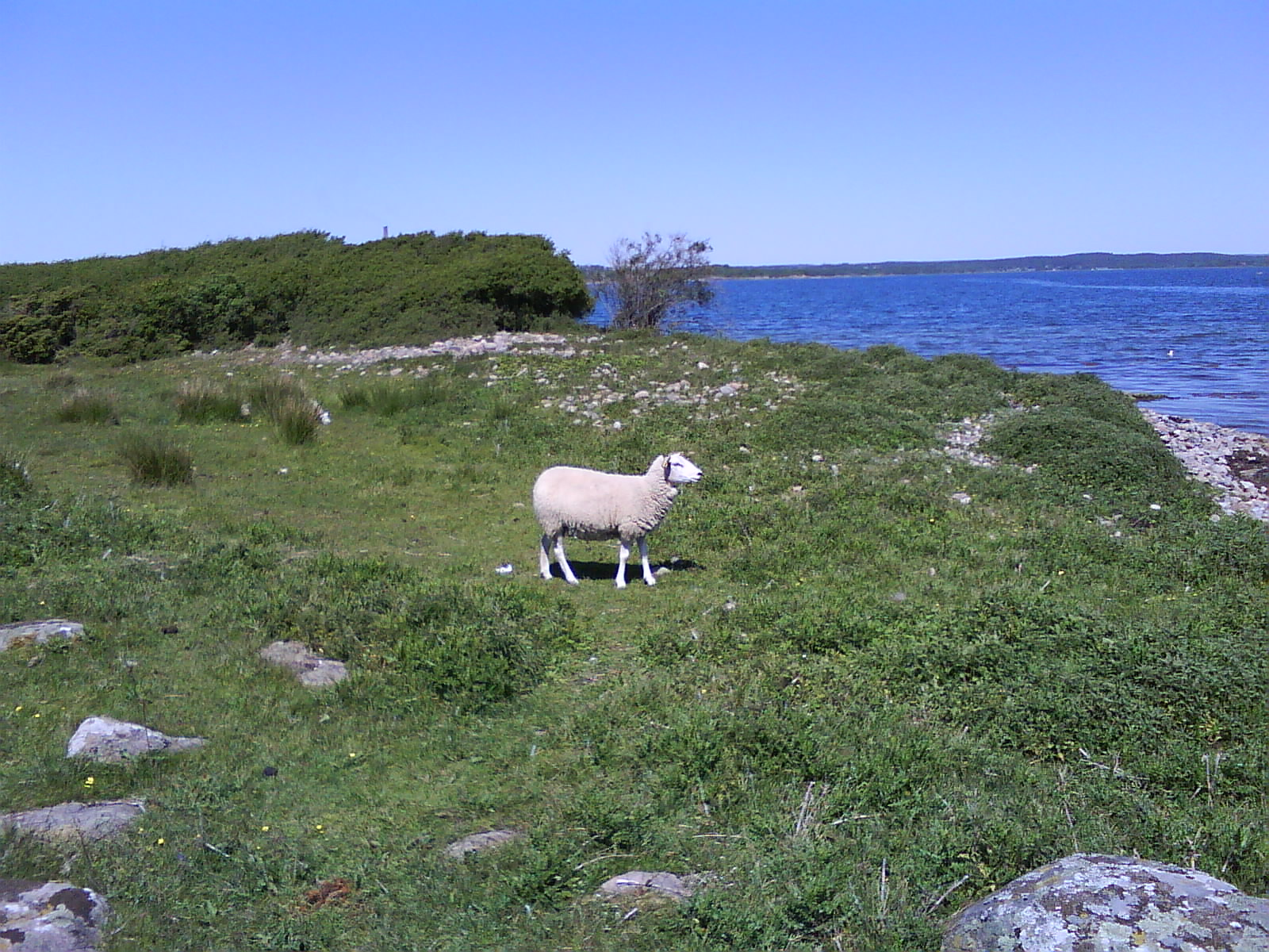 A sheep on Årnäsudden, Halland, Sweden. 2009